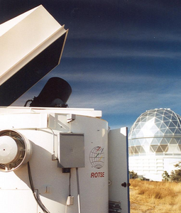 ROTSE-IIIb and the Hobby-Eberly telescopes